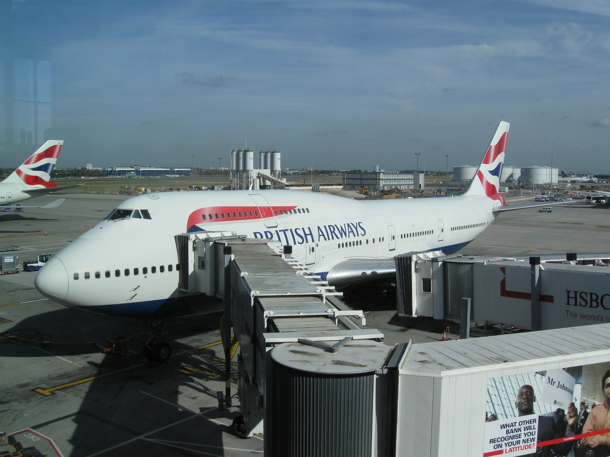 Passing the time at Terminal 5, Heathrow Airport, I took a photo of the plane I was due to take.